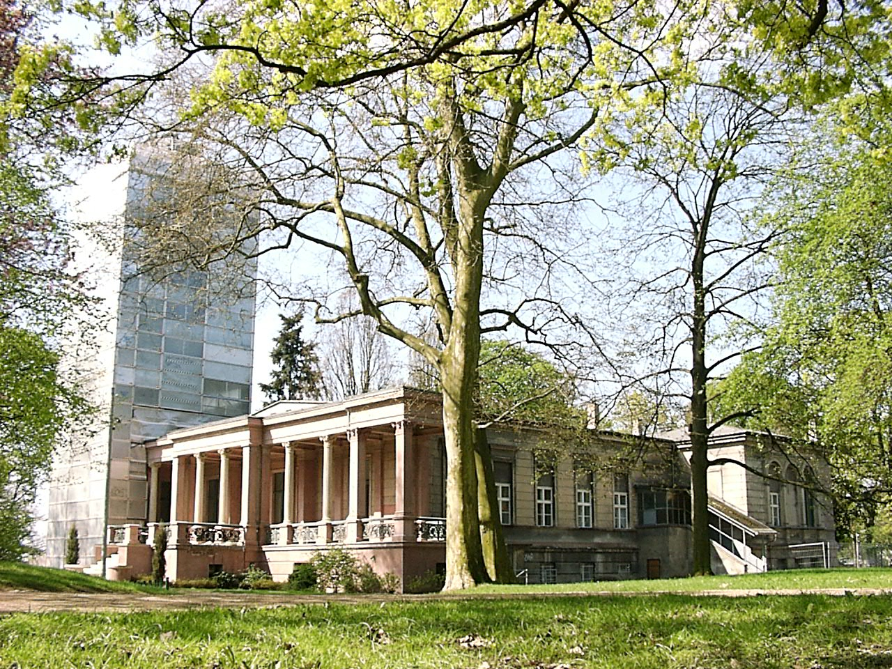 Castle Biesdorf, Berlin, Germany. View from Northeast.